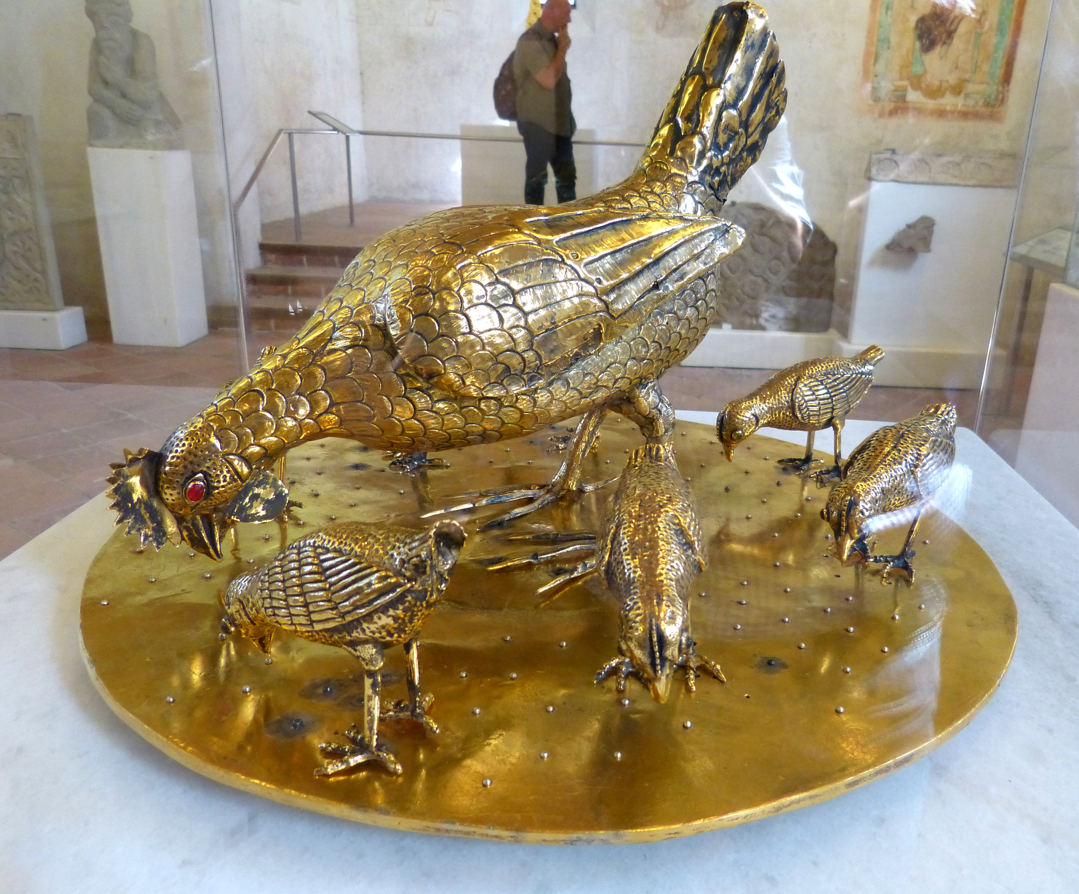 Frauenchiemsee abbey ( Upper Bavaria ). Saint Michael chapel in the gatehouse - Museum: Silver gilted hen with seven chicks ( 6th century ) found in the grave of queen Theodolinda ( Replica of an original from the treasury of Monza Cathedral )